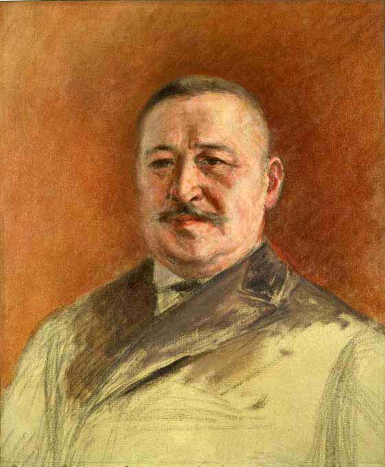 Sketch for a Portrait of Katsura Taro, by Kuroda Seiki, Kuroda Kinenkan, Tokyo National Museum, Japan